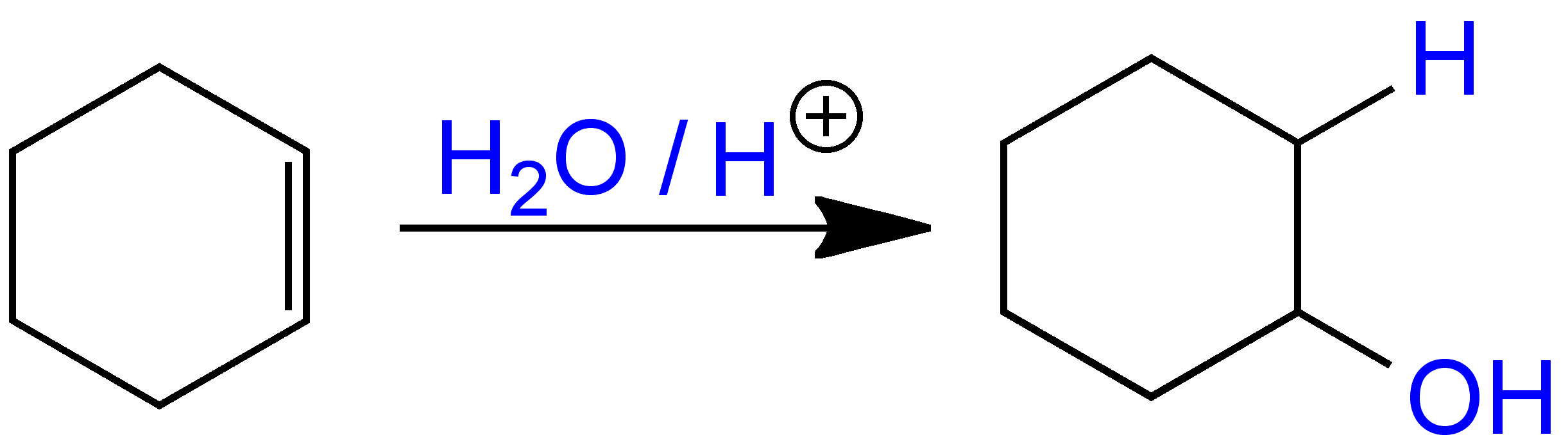 Cyclohexanol_Formation